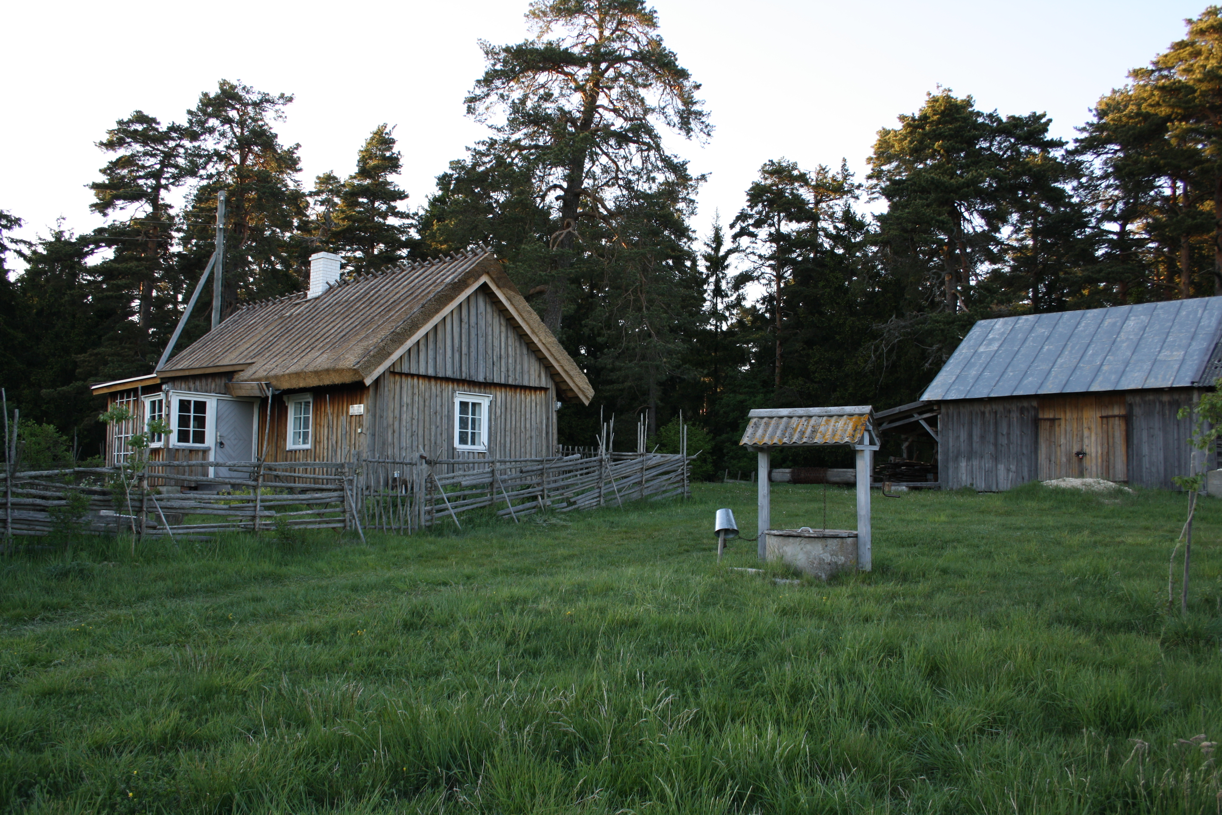 The woodman's cottage on Vormsi island in Estonia